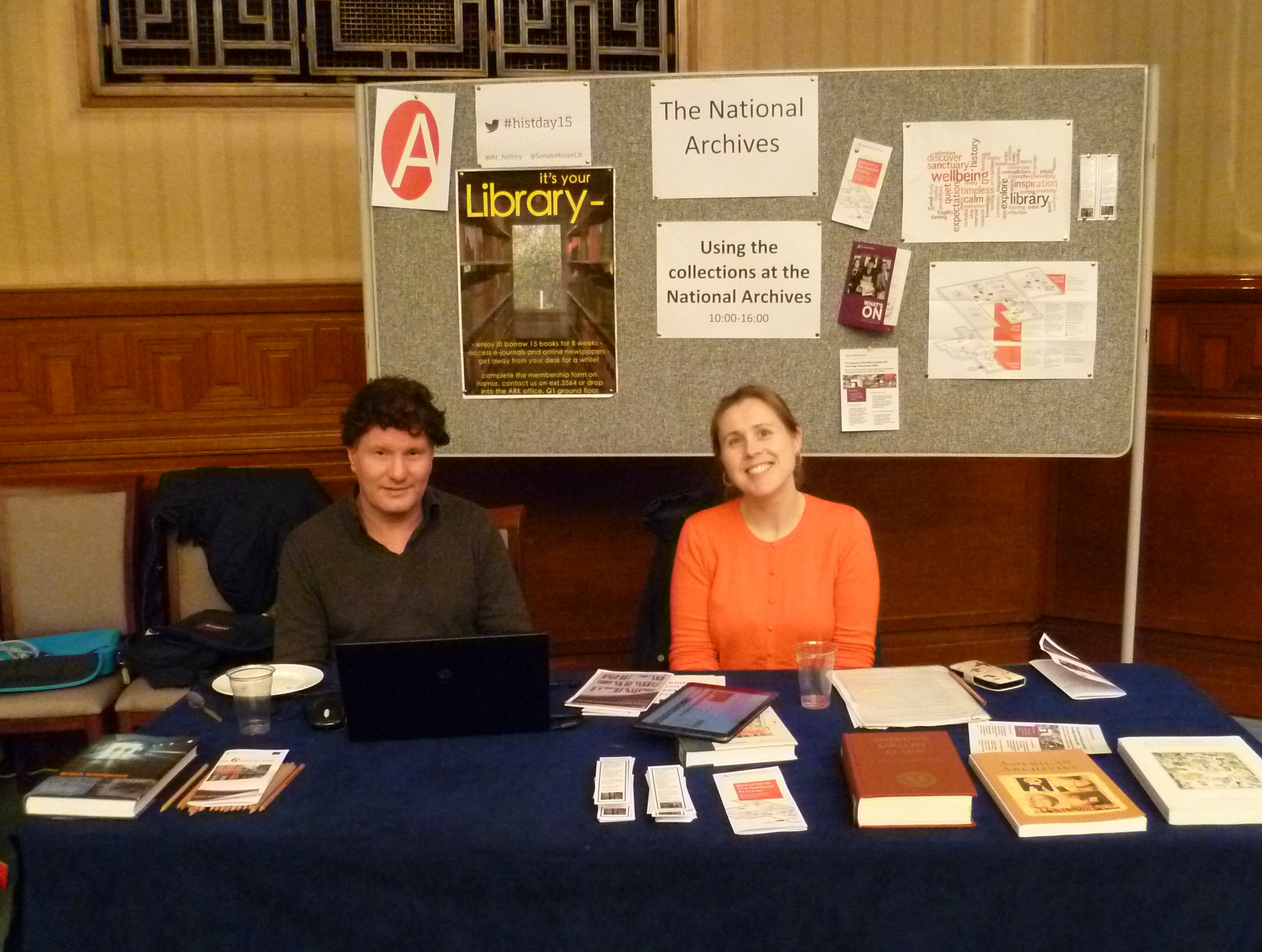 National Archives School Adv Studies History Day 27 Nov 2015